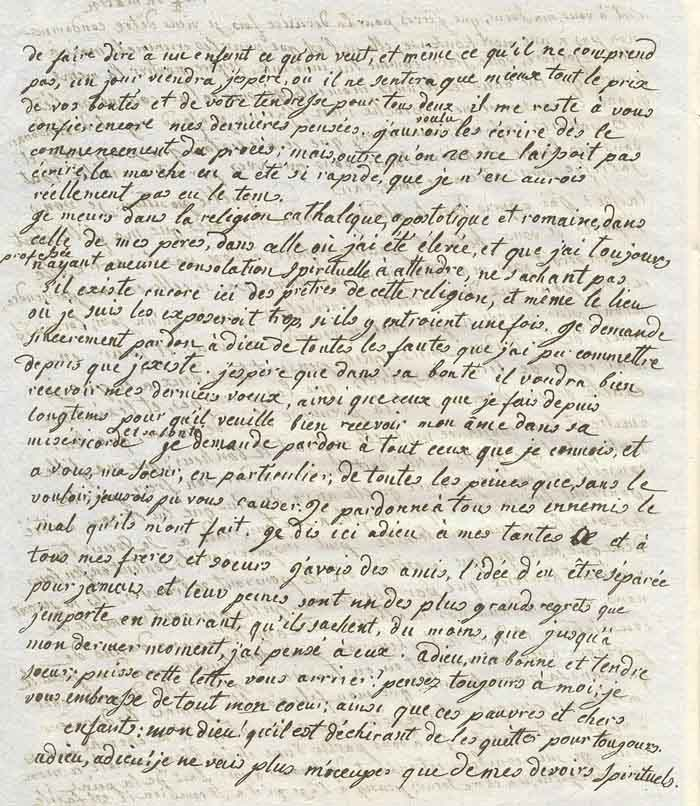 Marie Antoinette's testament (page two)